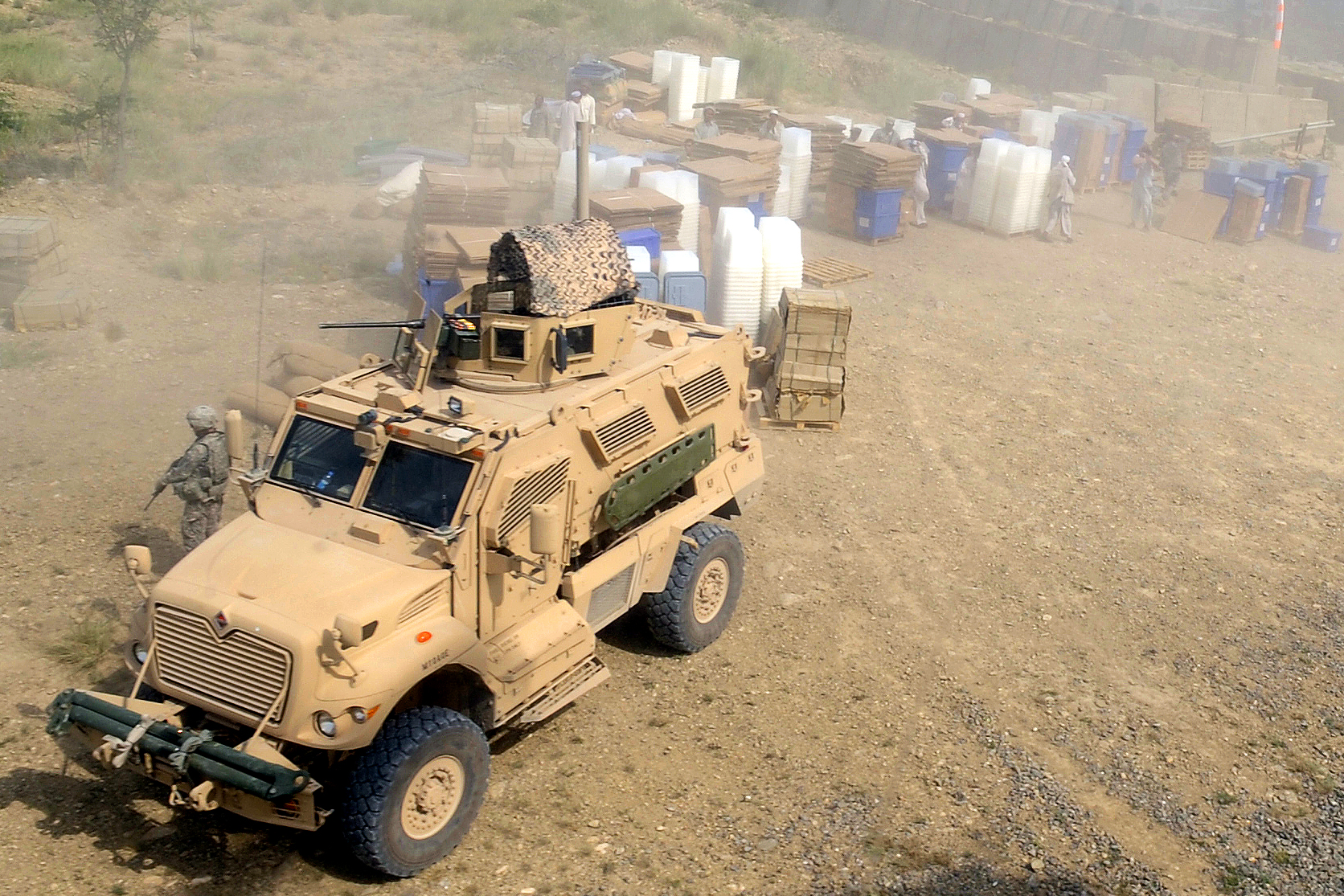 SECURED ZONE U.S. Army paratroopers secure a helicopter landing zone at the operational coordination center overlooking parts of the city in Khost province, eastern Afghanistan, Aug. 16, 2009. This location was one of the staging points to disseminate materials for the Afghan elections. The soldiers are assigned to the 25th Infantry Division's 2nd Battalion, 377th Parachute Field Artillery Regiment, 4th Brigade Combat Team. U.S. Army photo by Staff Sgt. Marcus Butler